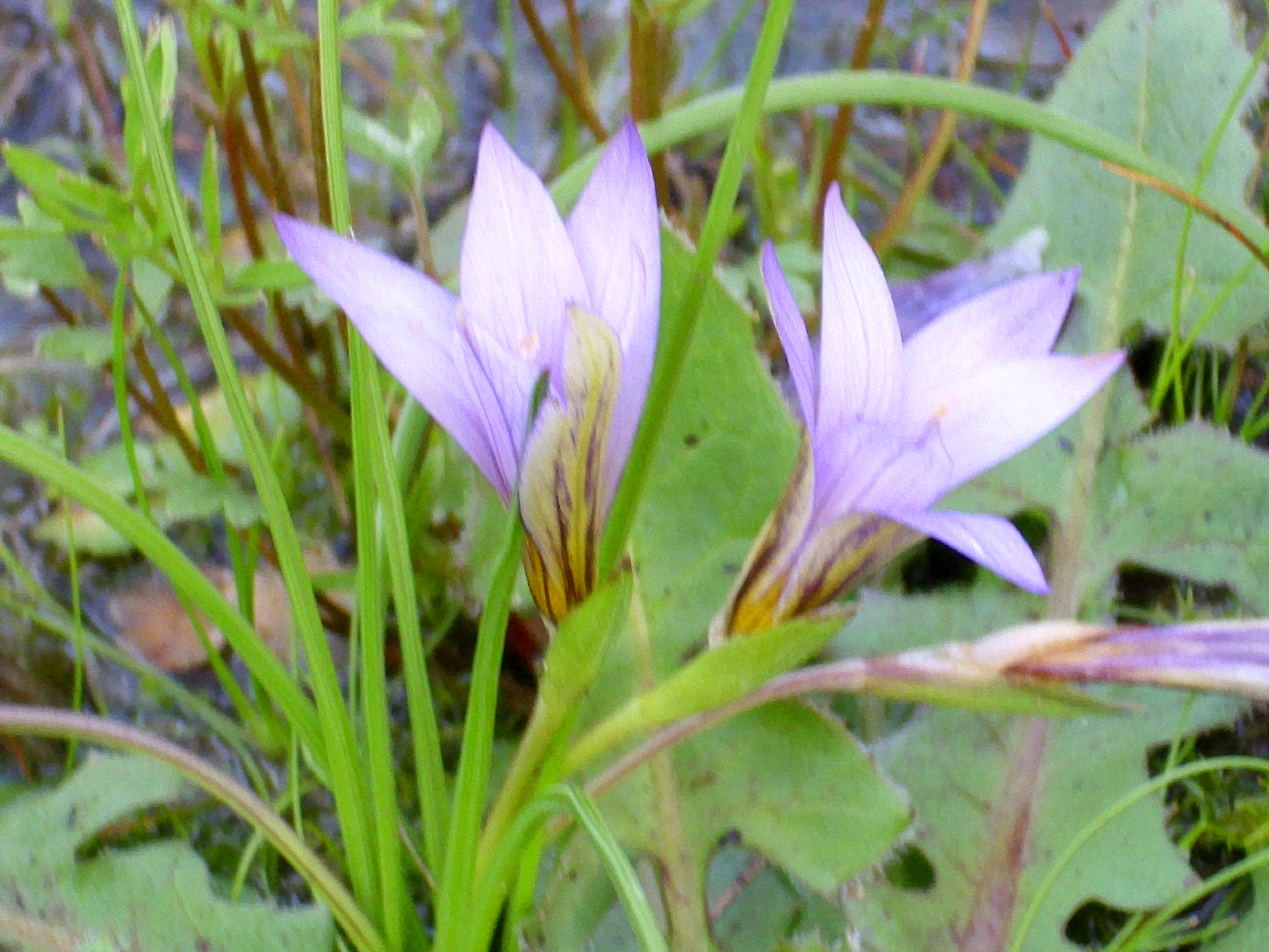 Romulea ramiflora flowers, Dehesa Boyal de Puertollano, Spain